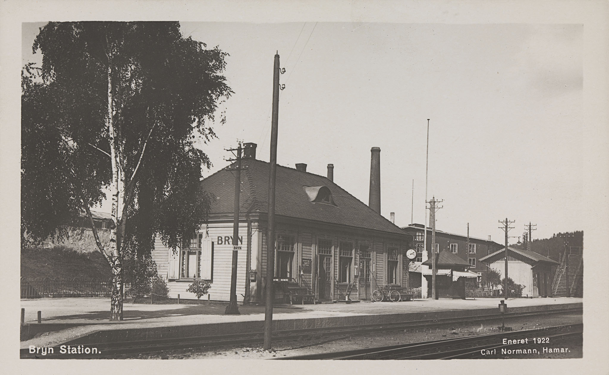 Tittel / Title: Bryn Station Beskrivelse / Description: Postkort. Dato / Date: ca 1922 Fotograf / Photographer: Carl Normann (1886-1960) Utgiver / Publisher: Carl Normann, Hamar Sted / Place: Oslo, Bryn, Bryn stasjon Eier / Owner Institution: Nasjonalbiblioteket / National Library of Norway Lenke / Link: Bildesignatur / Image Number: bldsa_PK2000